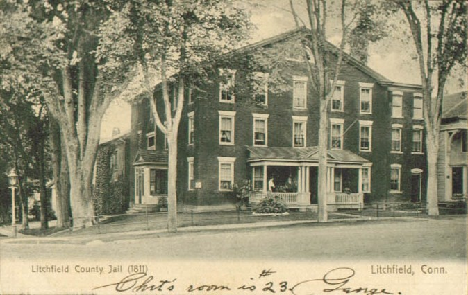 Caption: "Litchfield County Jail (1811)" in Litchfield, Connecticut